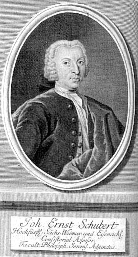 Johann Ernst Schubert (1717-1774) german protestant Theologian